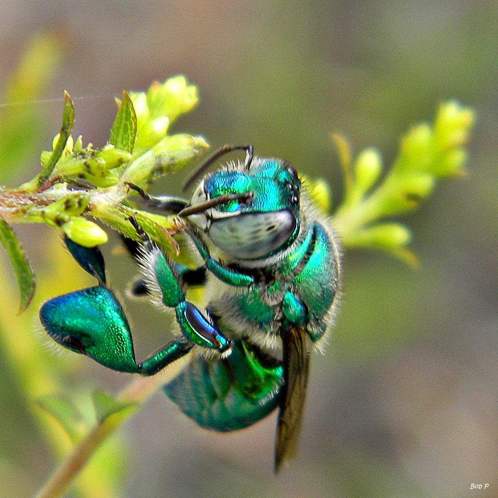 My friend the green orchid bee was formerly classified as E. viridissima. It's a very new species in Florida, having been introduced in 2003 from Mexico and Central America. This happy bee has a long proboscis, allowing it to pollinate and get nectar from flowers other bees can't reach. It hovers superbly. The bees pictured are collecting something from Solidago (goldenrod) plants. Females collect mud and various plant resins to construct their nests. Males, in their native countries, have the fascinating ability to collect fragrances (volatile compounds...often esters) from orchids to use in attracting mates. Their "behavior of volatile collection is essentially unique in the animal kingdom." (reference below)